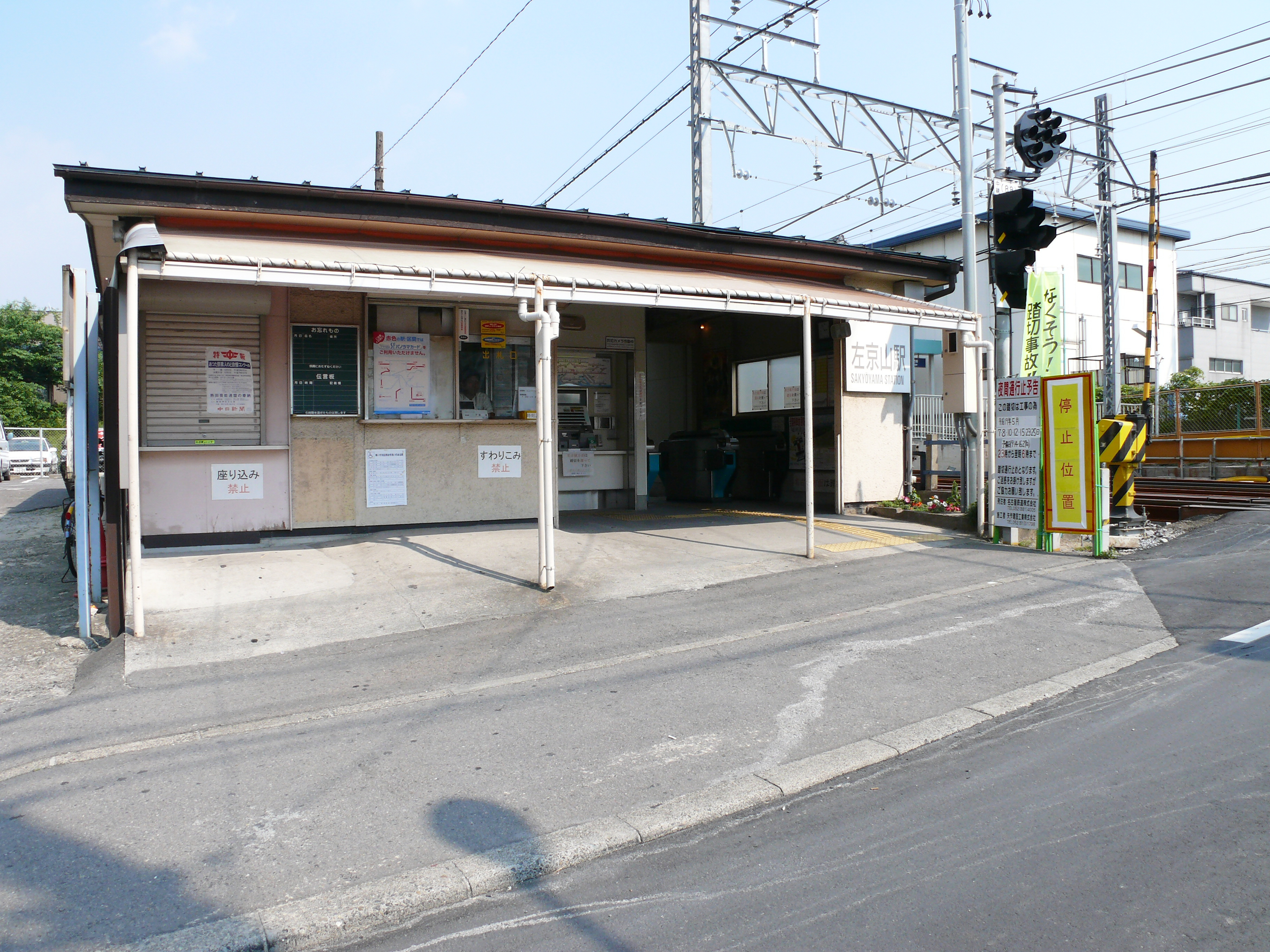 Meitetsu Sakyoyama Station.